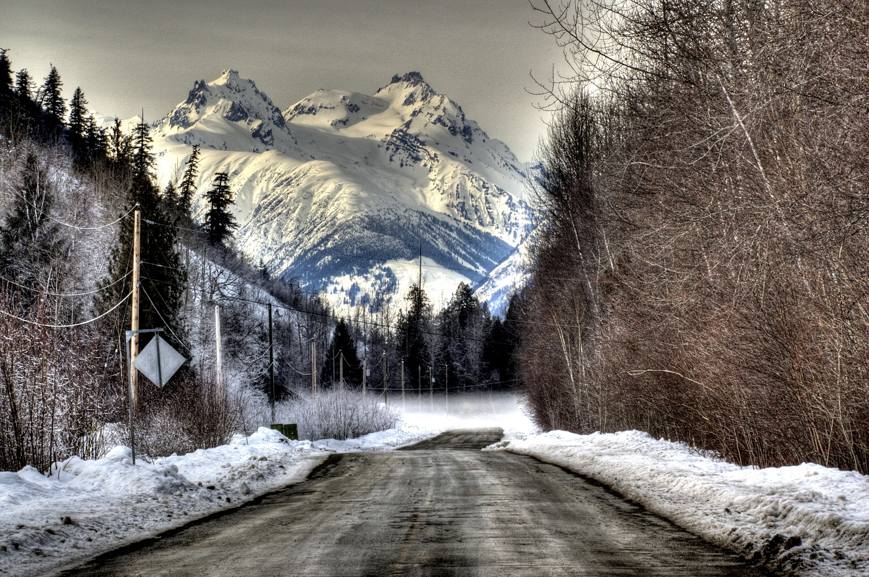 The far end of the Pemberton Meadows with the Meager Group looming in the background.Off the Pavement